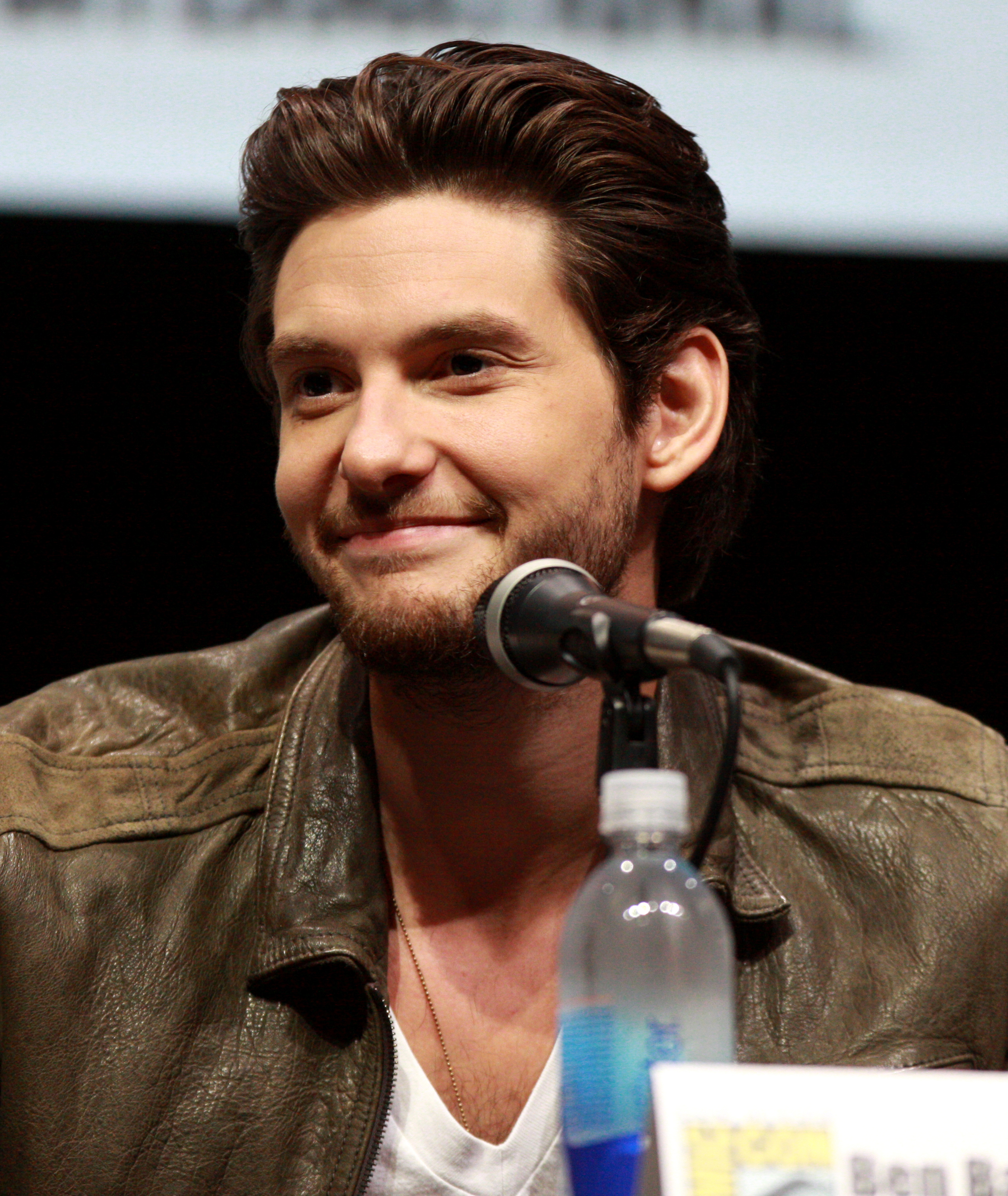 Ben Barnes at the 2013 San Diego Comic Con International in San Diego, California.